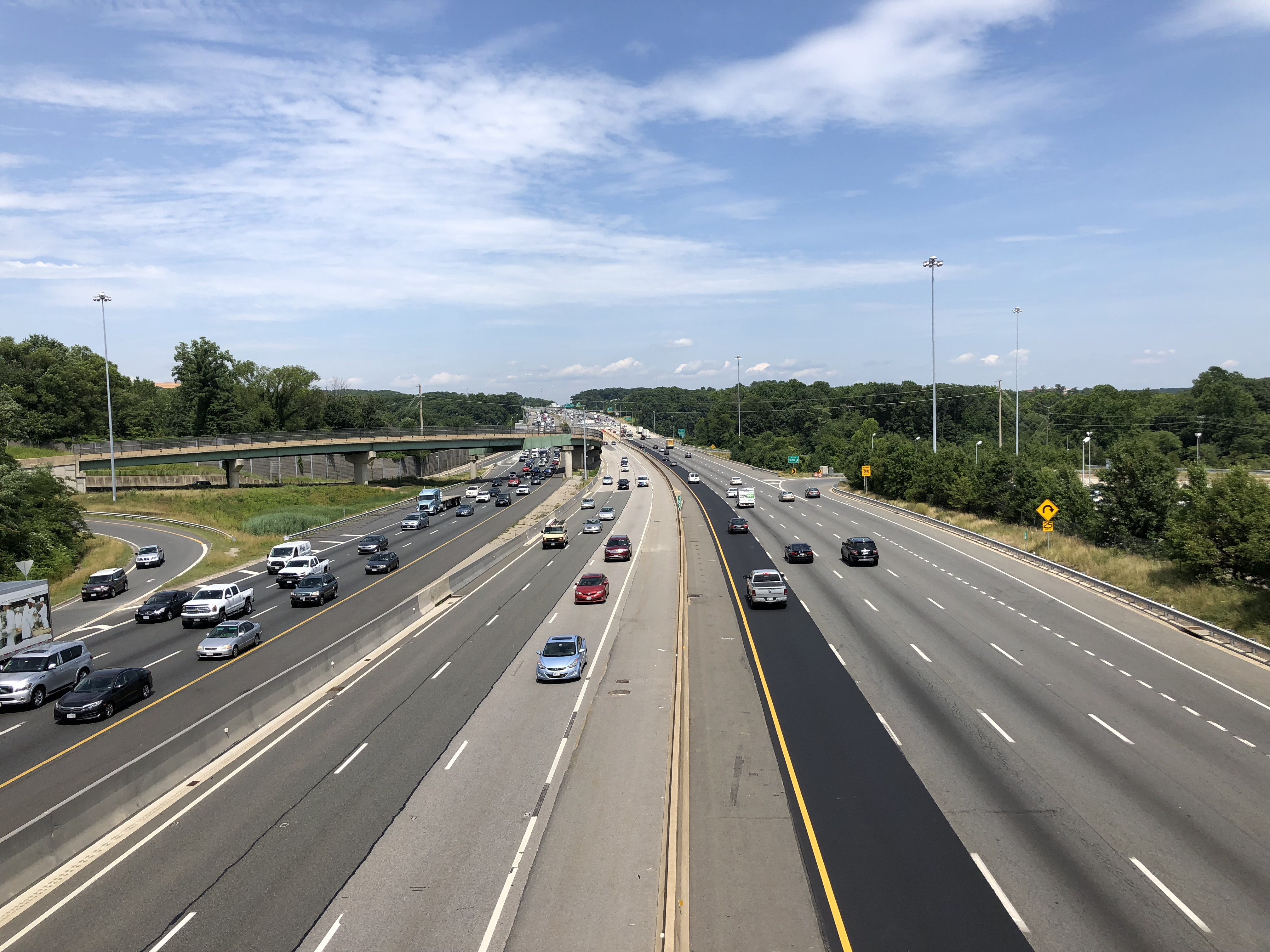 View north along Interstate 95 from the overpass for Virginia State Route 123 (Gordon Boulevard) in Woodbridge, Prince William County, Virginia